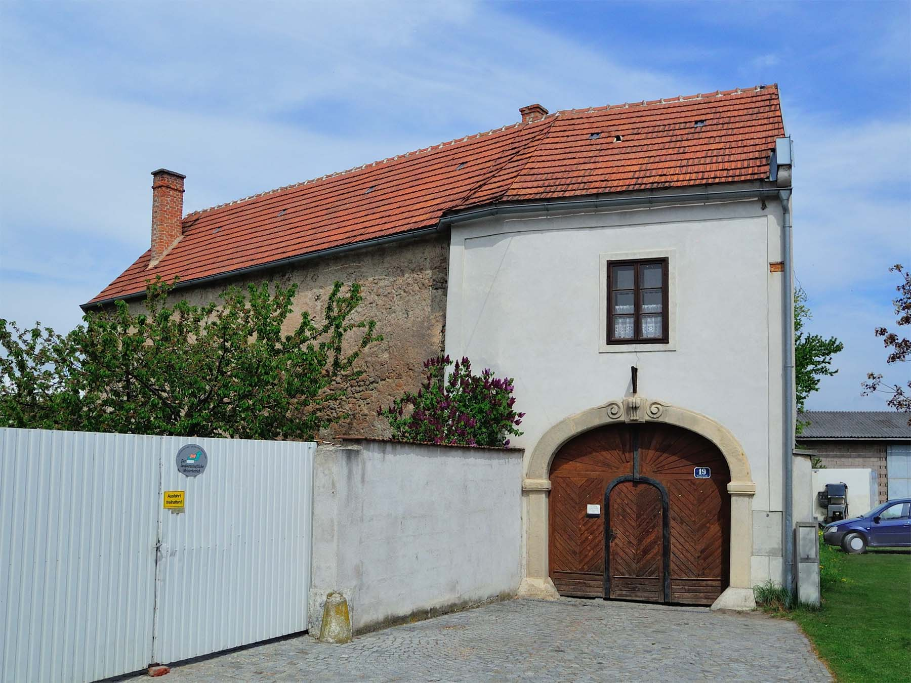 Rectory in Leithaprodersdorf, Burgenland, Austria